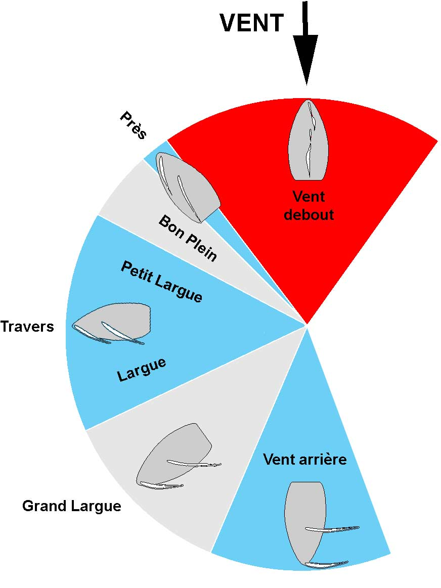 Points of sail.